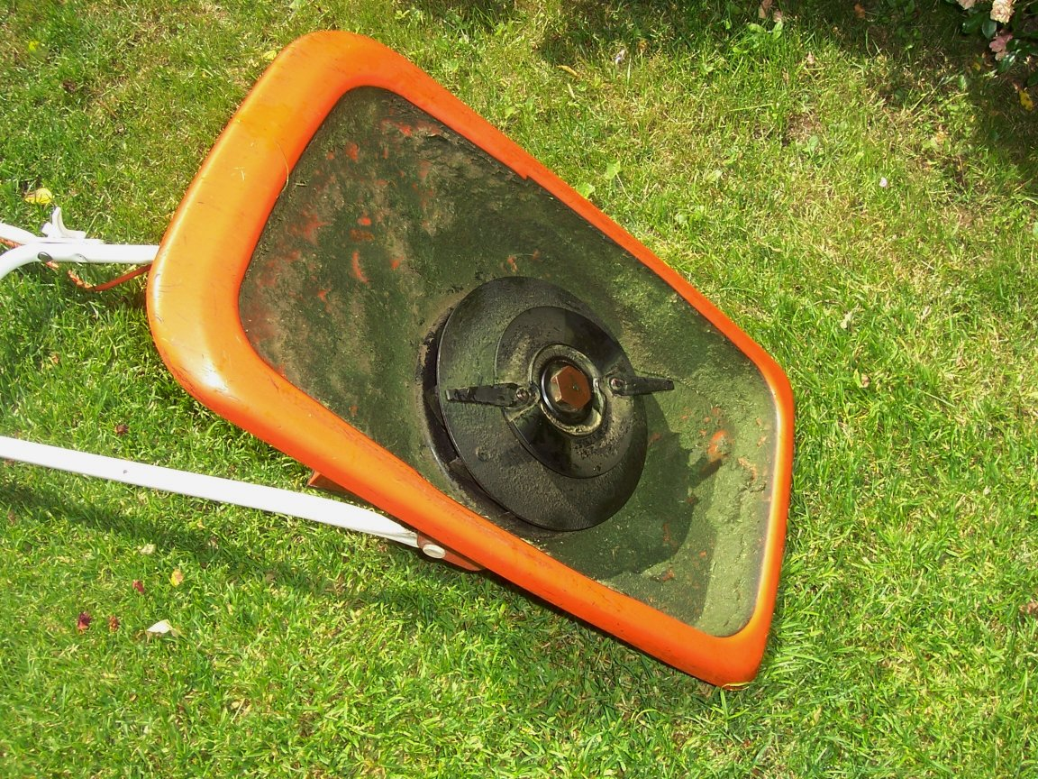 Flymo hover lawn mower